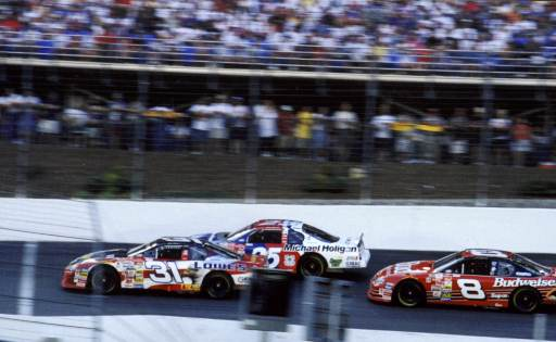 Charlotte, North Carolina (May 28)--The Coast Guard Nascar car, driven by Jerry Nadeau, makes a pit stop to have all four tires changed. The Coast Guard Nascar competed in this years Coca-Cola 600 race. Slug 000528-A-7305W-017 (FR) Location CHARLOTTE, North Carolina United States Special Instructions 000528-A-7305W-017 (FOR RELEASE) Photographer PA3 KIMBERLY WILDER Object Name COAST GUARD NASCAR (FOR RELEASE) Credit U.S. COAST GUARD DIGITAL Server Name cgvi.uscg.mil:80 PLS ImageID 11006 Picture Desk ImageID 008HQ Committed Yes (Platter 2A) Database Photo